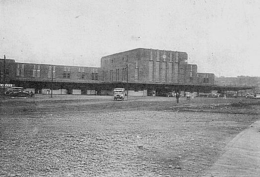 Yokohama Station circa 1930